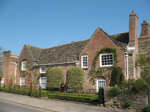 Shandy Hall, near to Coxwold, North Yorkshire